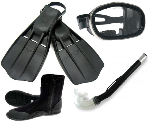 Exact Gear Used Throughout The Pararescueman Indoctrination Course